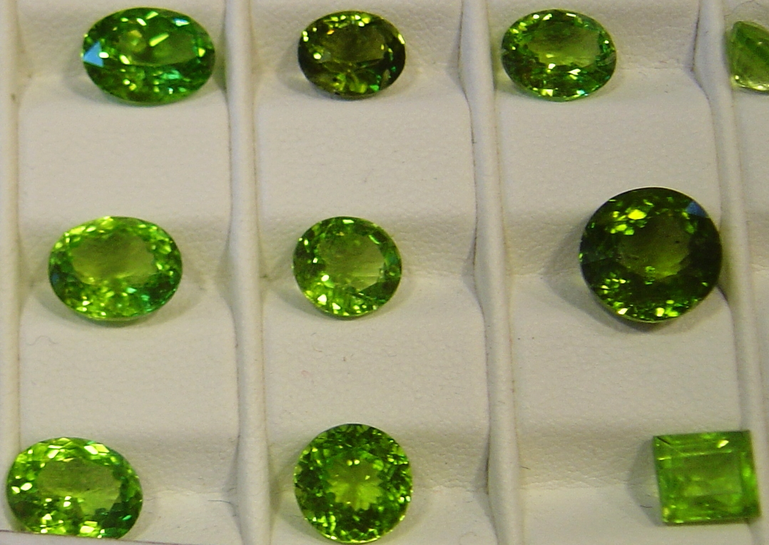 olivine gemstones I took this photo in october 2005